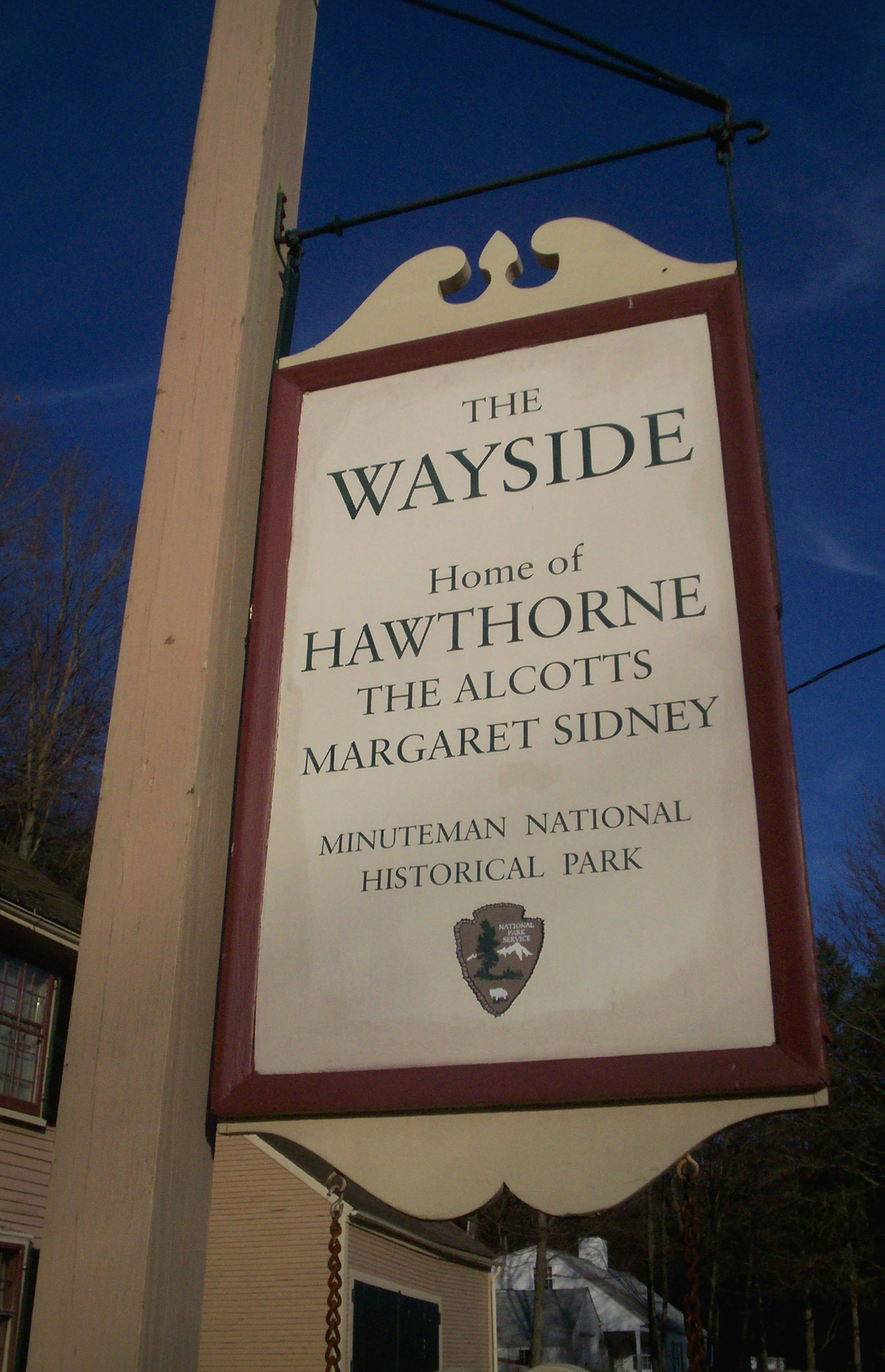 The non-historic sign at The Wayside (Concord, Massachusetts) - former home of the Alcott family, the Hawthorne family, and the Lothrop family.